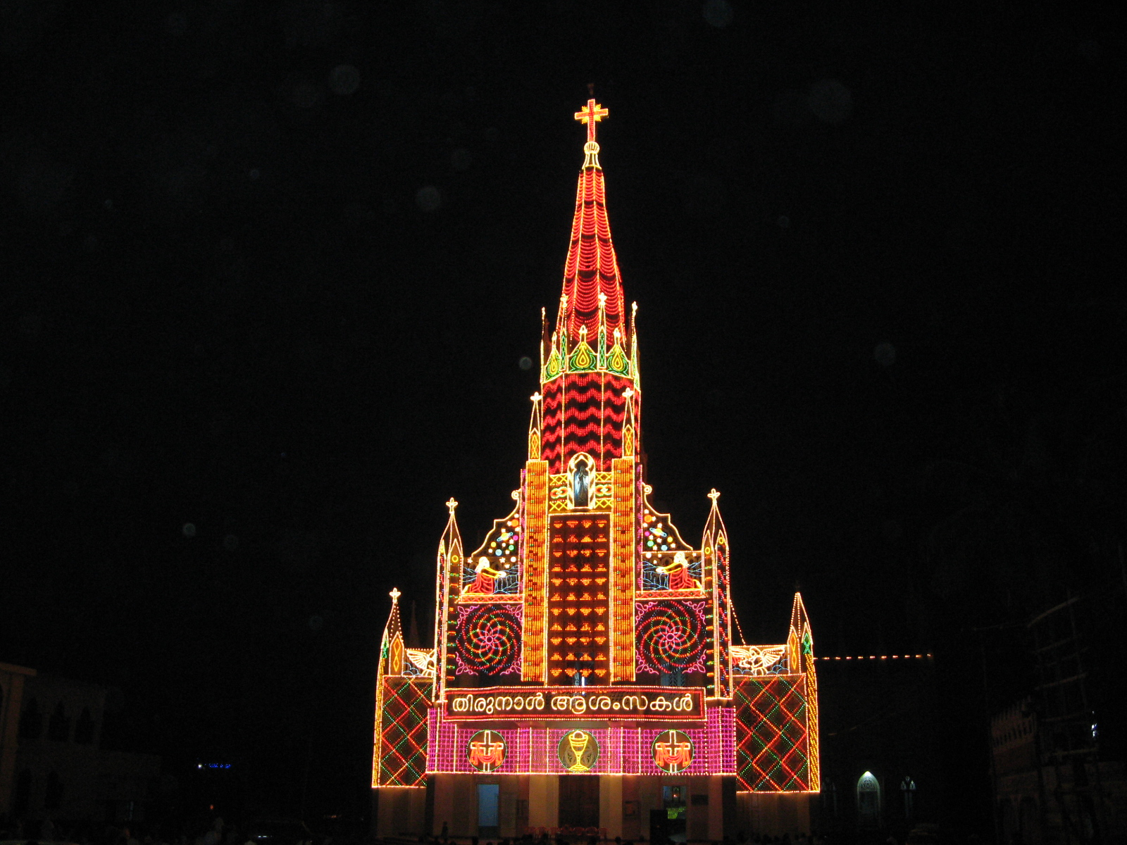 Lourdes Metropolitan Cathedral during 2007 perunnal.